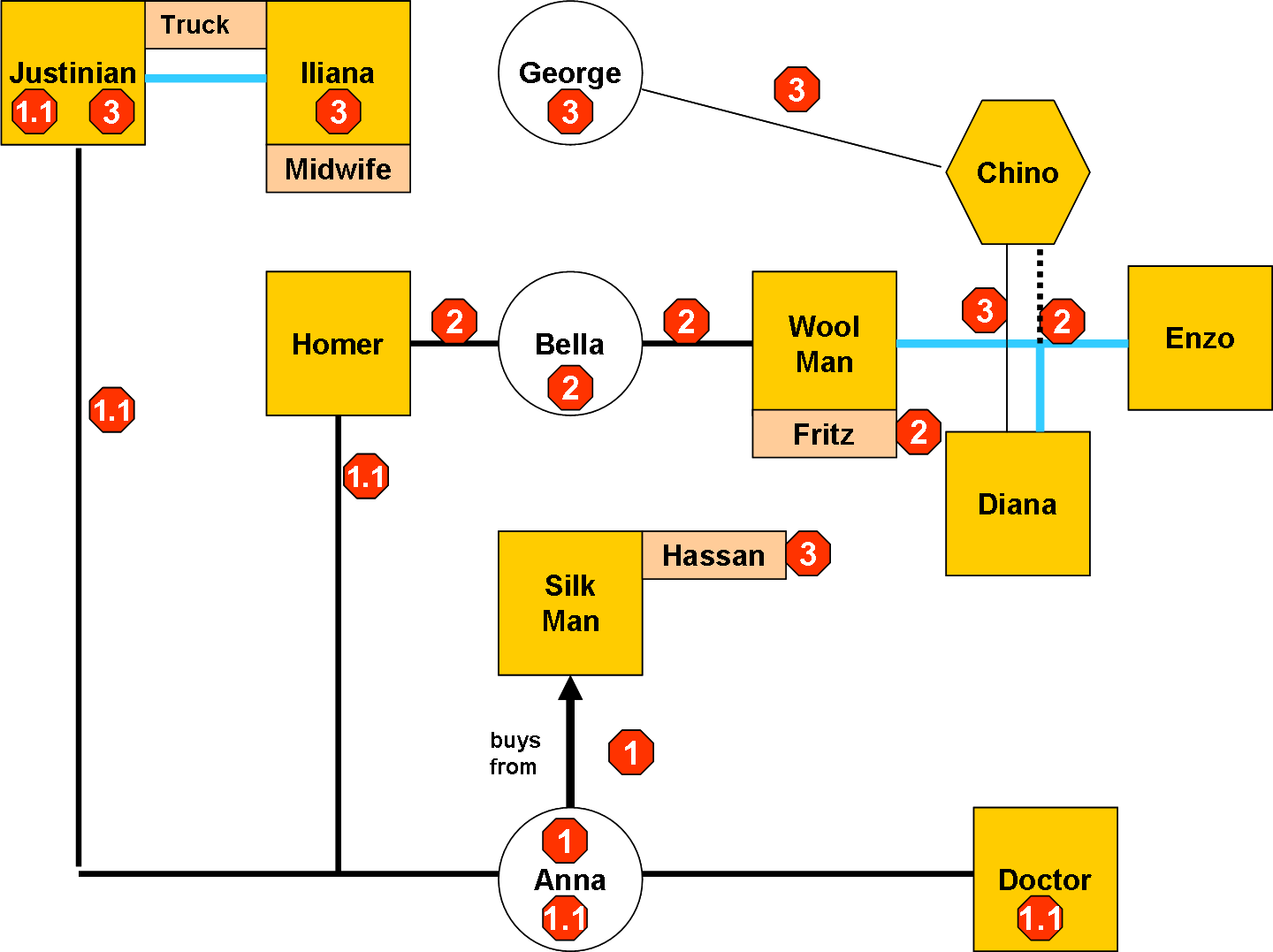 Effect of reinterviewing first source